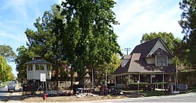 This is my 2008 photo of Folsom Prison Museum in California.